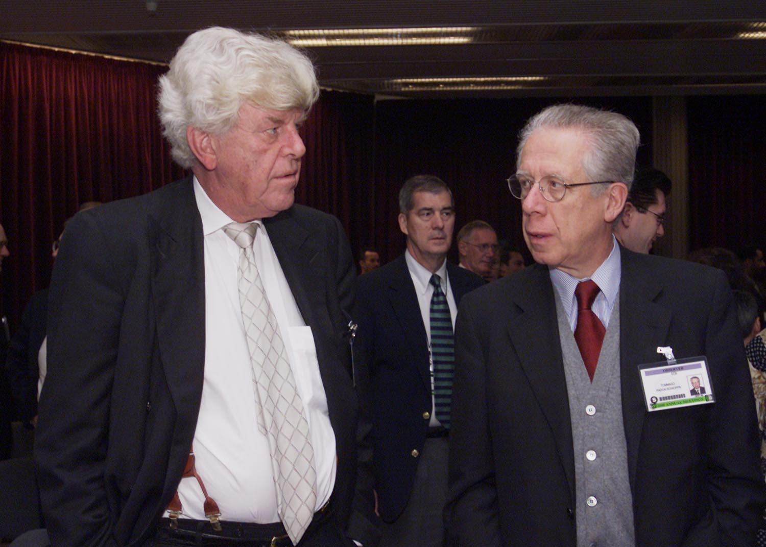 European Central Bank President Wim Duisenberg, left, and ECB Board Member Tommaso Padoa-Schioppa ahead of the International Monetary and Financial Committee meeting.